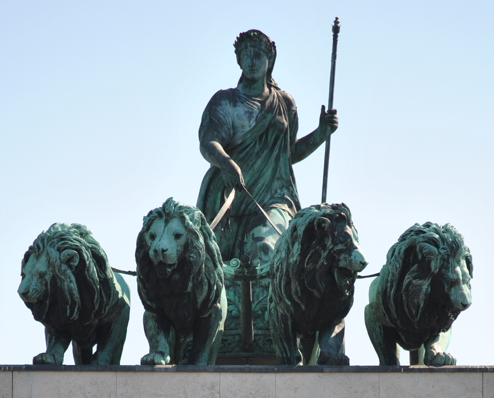 Quadriga on the Siegestor in Munich, Germany